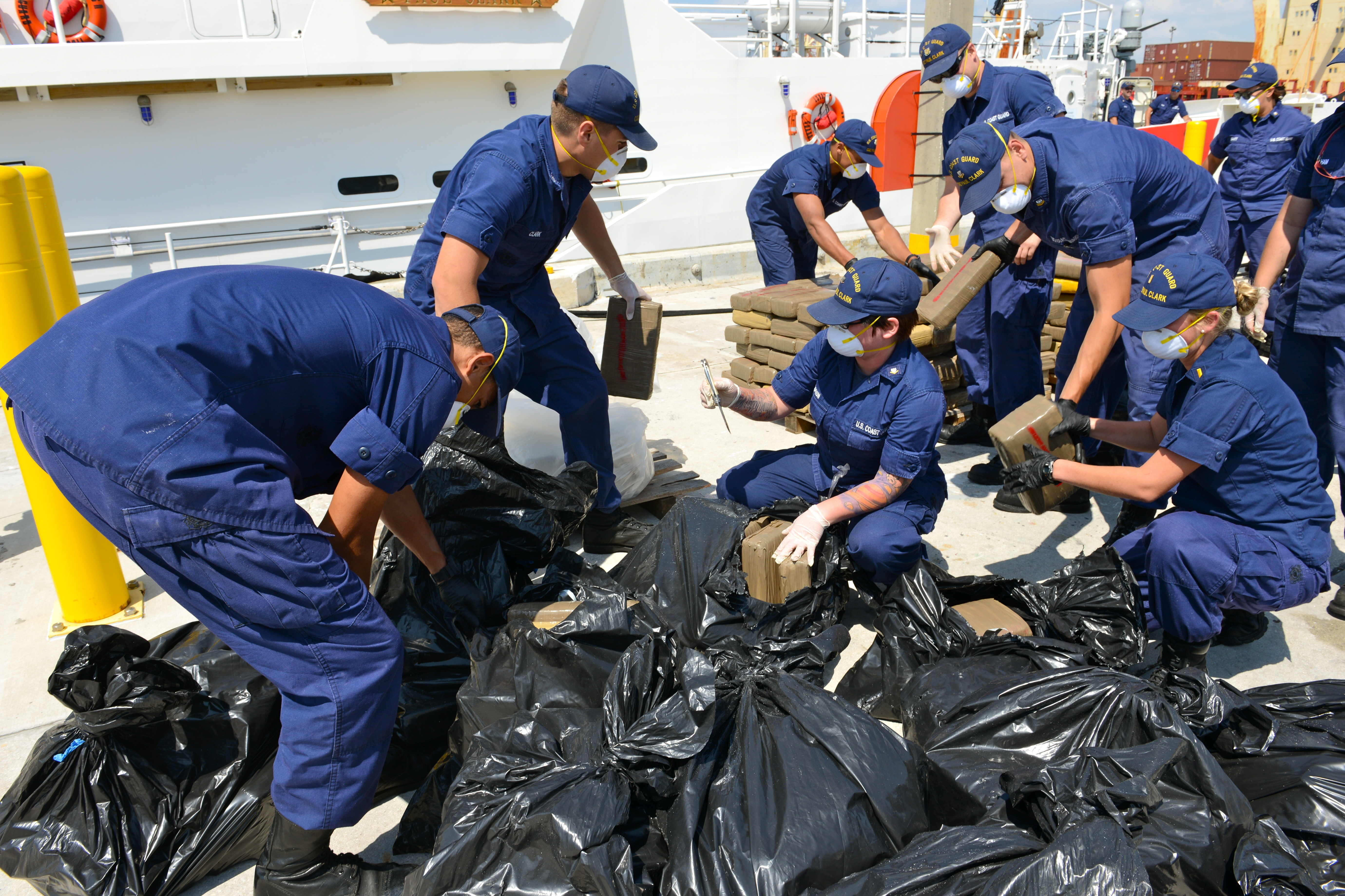 Original caption: "The crew of the Coast Guard Cutter Paul Clark offloads an estimated 2,100 pounds of marijuana and 35 kilograms of cocaine worth a combined wholesale value of more than $3 million at Base Miami Beach, Florida Friday. (Coast Guard Cutters Charles Sexton and Paul Clark teamed up this week in the first drug interdictions performed aboard the 154-foot fast response cutters. U.S. Coast Guard photo by Petty Officer 2nd Class Sabrina Laberdesque)"